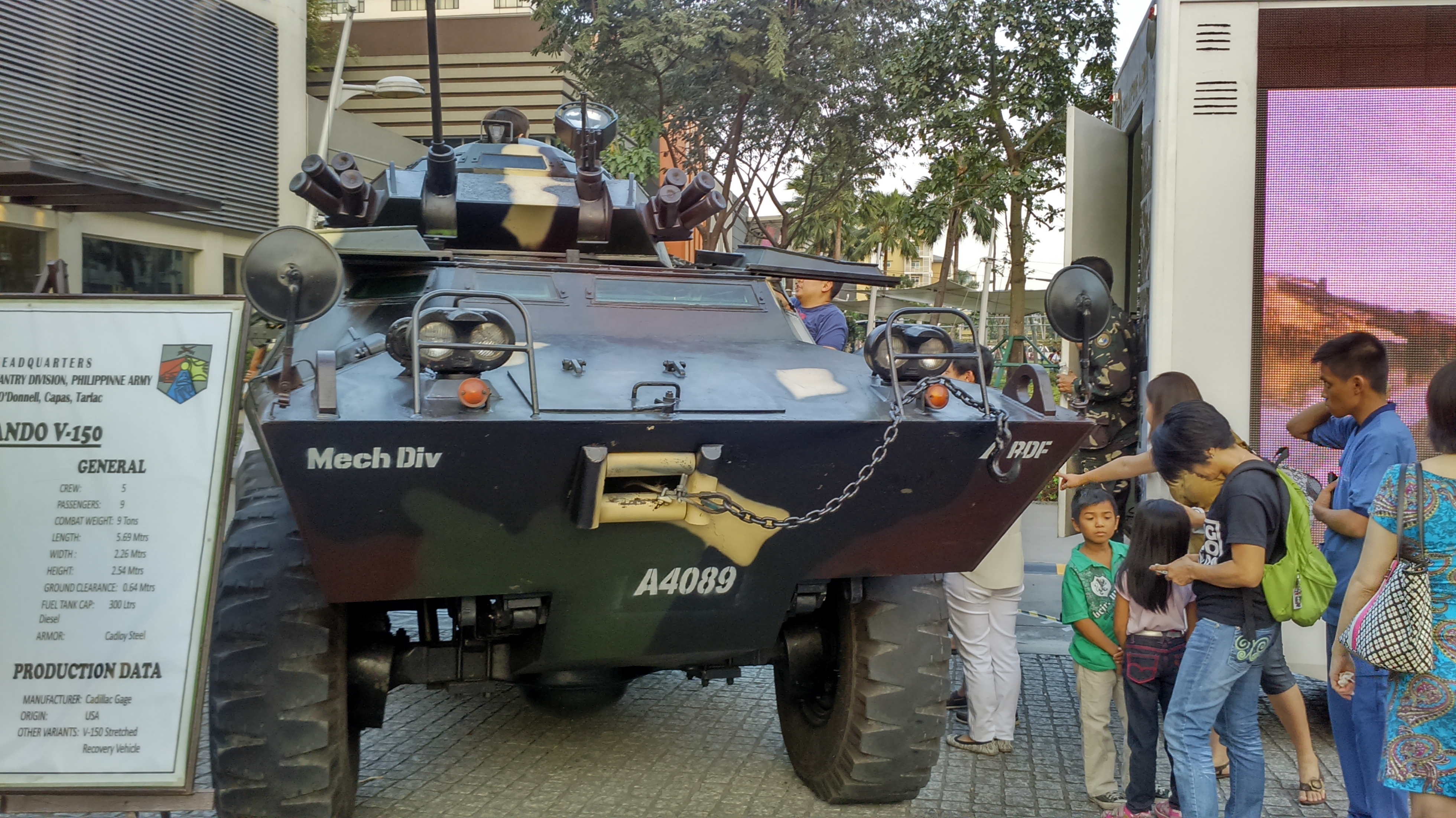 Front view of a V-150 Commando vehicle during the Philippine Army's 118th Anniversary Exhibit at the Bonifacio Global City (BGC) Activity Center